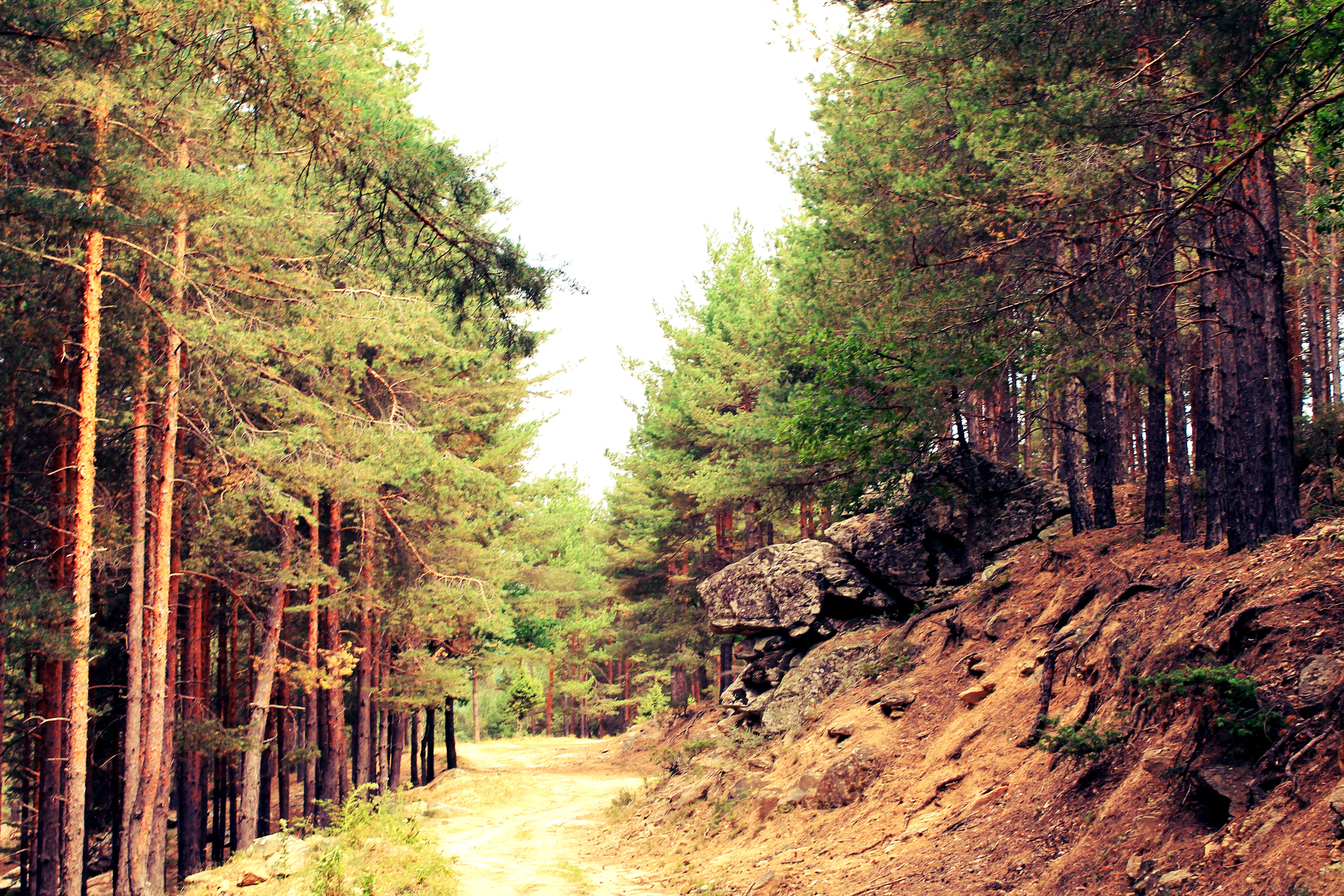 Skribina_11